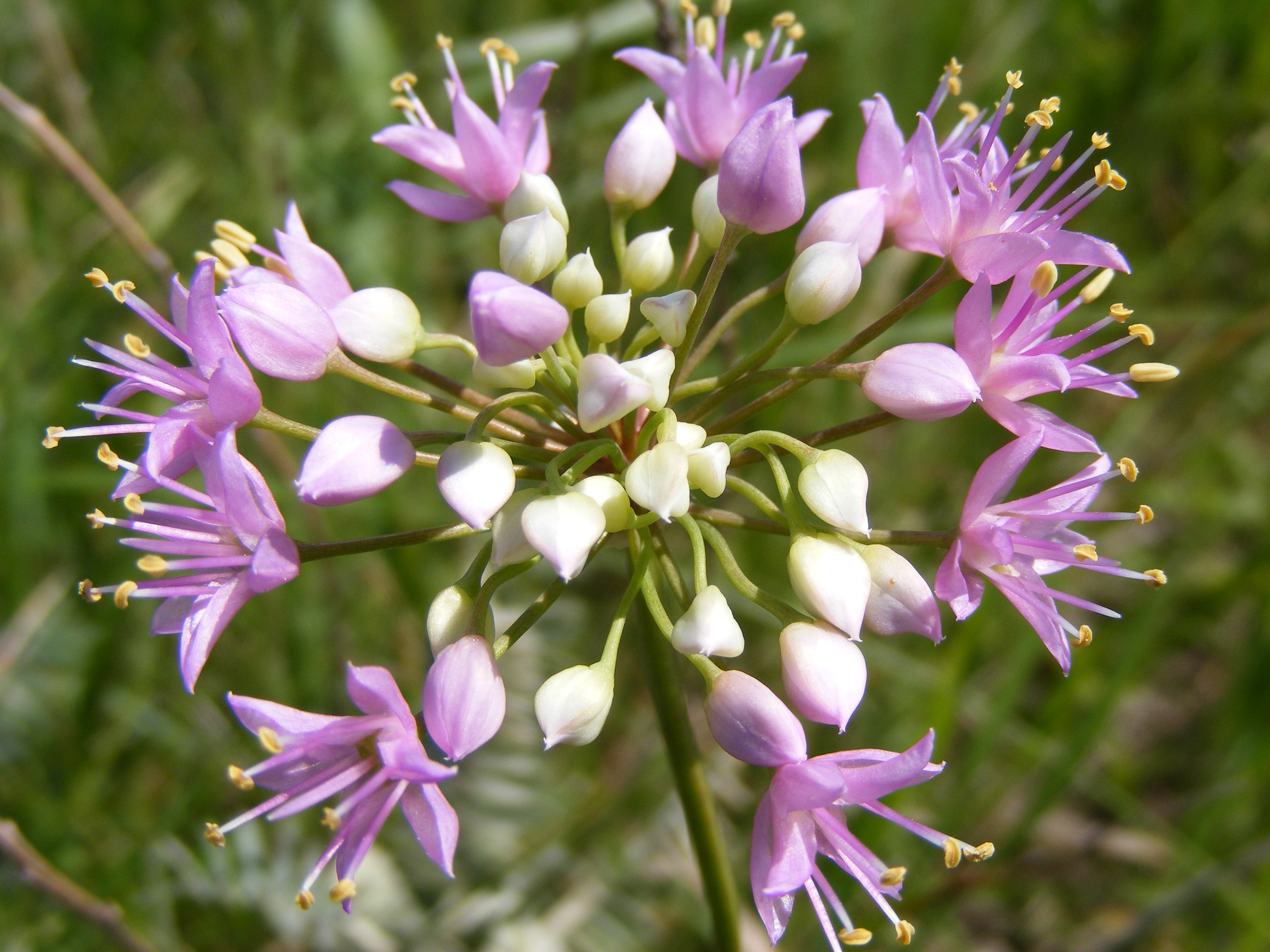 A pink wild onion (Allium stellatum) — blooms in the Tallgrass Prairie of Waubay Wetland Management District in South Dakota. Credit: Laura Hubers / USFWS Photo Contest Entry #162